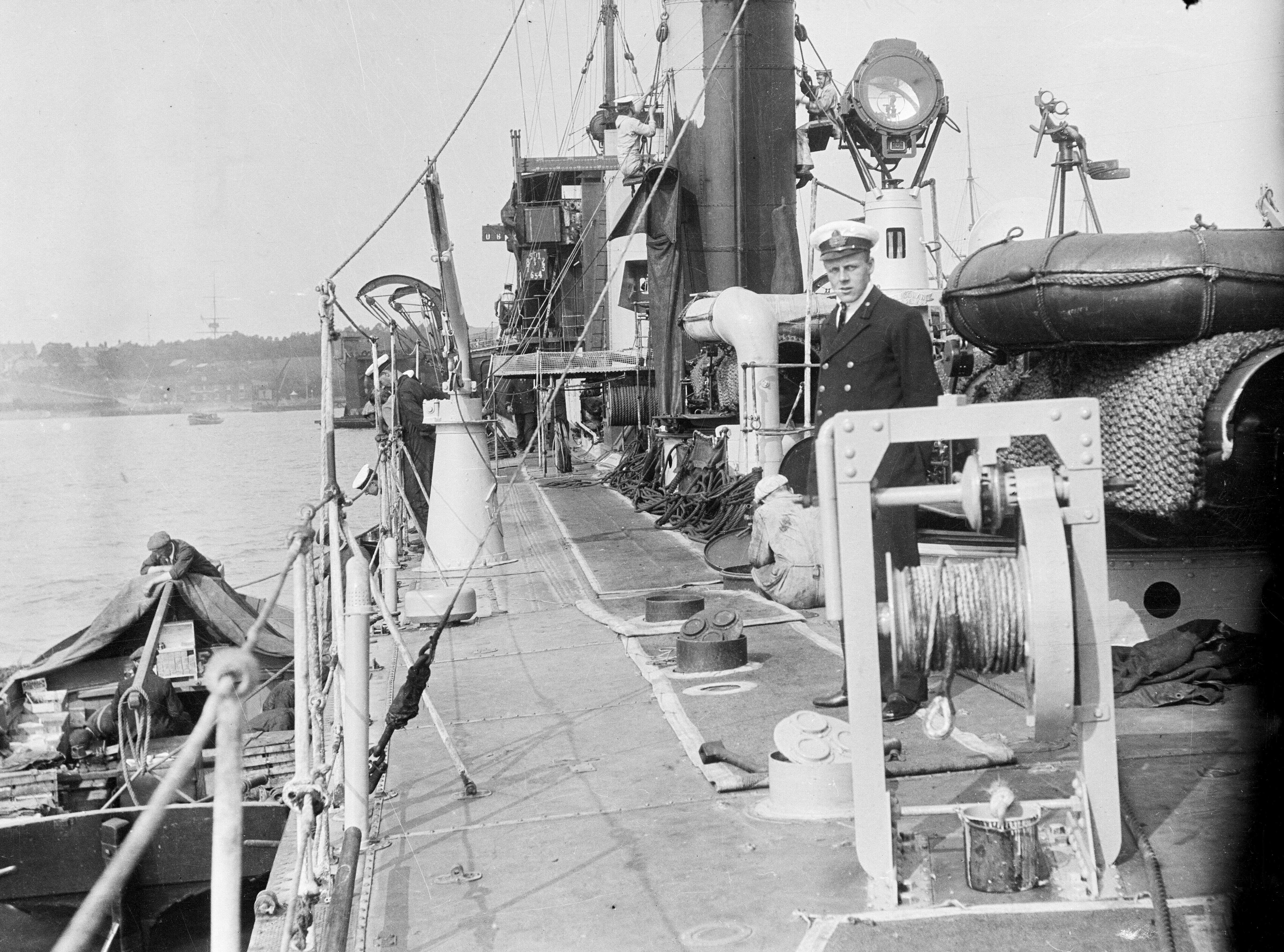 On board the destroyer Laforey (1913) at moorings in Harwich harbour On board the destroyer LAFOREY (1913) of the 9th Destroyer Flotilla while she is at moorings in Harwich harbour in mid 1916. The GANGES shore establishment at Shotley is in the background. The photographer is looking forward from abreast the mainmast on the port side of the upper, or iron, deck and the photograph shows some of the crew in the process of repainting the ship from black to grey. Of note are the gunnery range board abaft No. 2 funnel, the range clock and repeater on the bridge, the searchlight, the torpedo davit and the carley raft and torpedo sight on the aft bank of torpedo tubes. Just beyond the left shoulder of the officer is the ship’s battle honours scroll. A motor lighter is alongside unloading stores. On board the destroyer Laforey (1913) at moorings in Harwich harbour